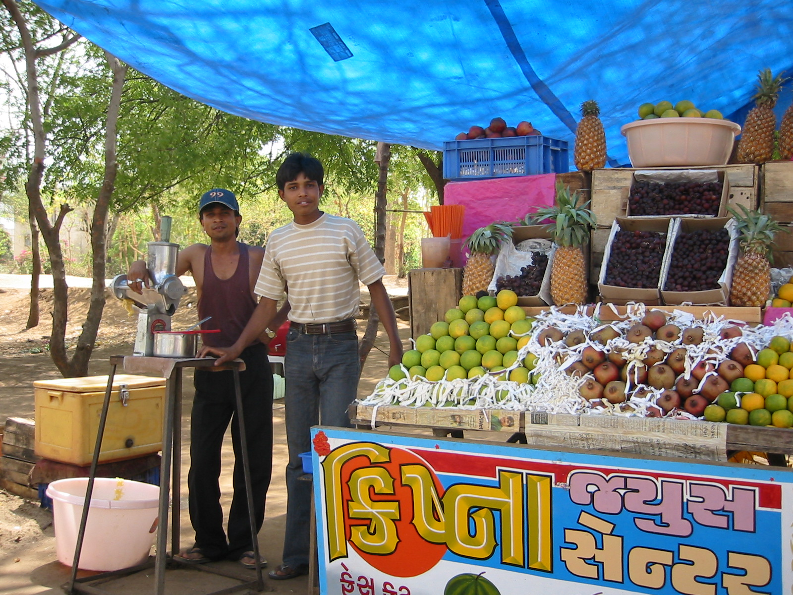 Fruit seller at Ahmedabad, India.